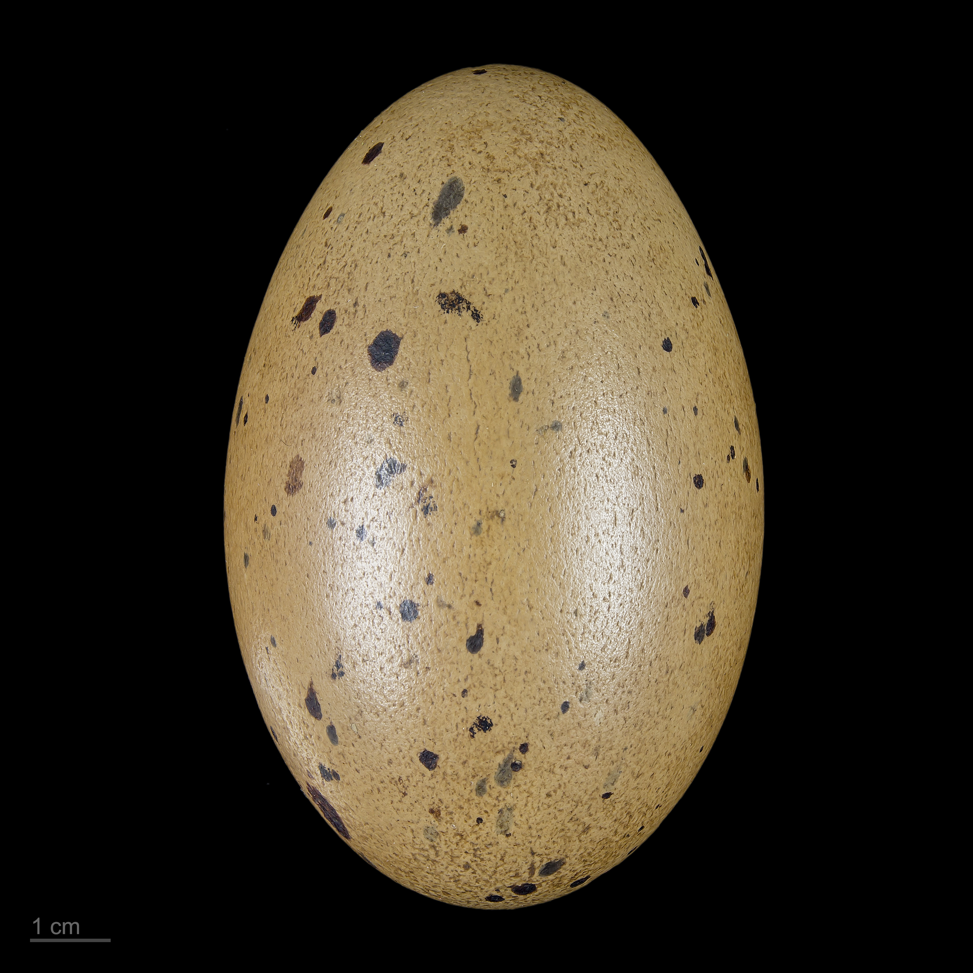 Eggs of common loon collection of Jacques Perrin de Brichambaut.